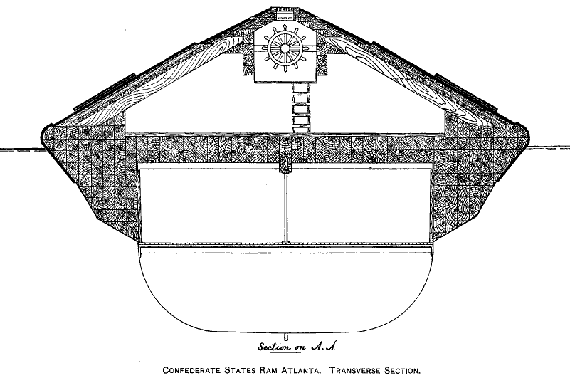 Cross-section view of the CSS Atlanta as she was surveyed after her capture in 1863